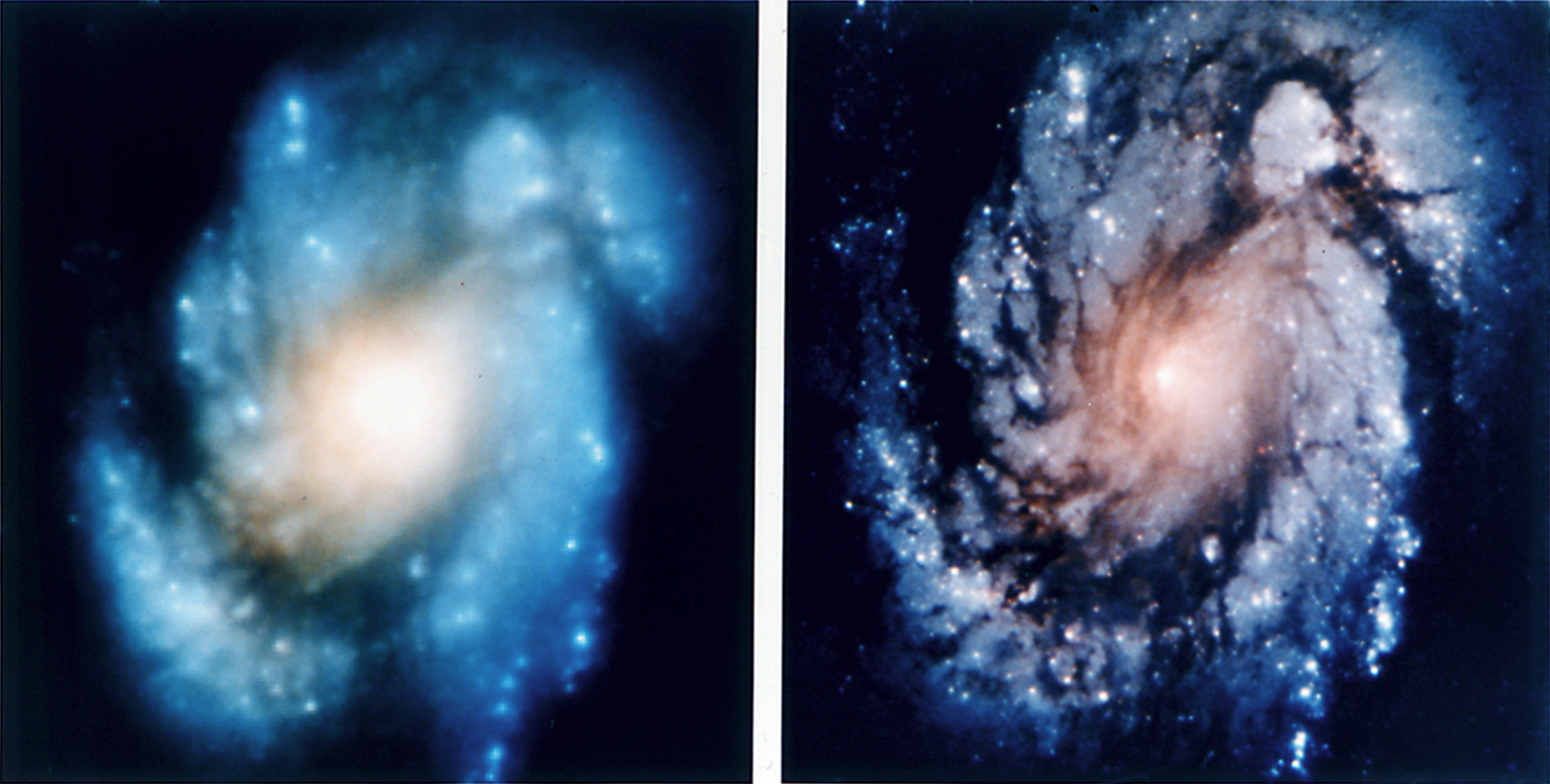 This comparison image of the core of the galaxy M100 shows the dramatic improvement in Hubble Space Telescope's view of the universe after the first Hubble Servicing Mission in December 1993. The new image, taken with the second generation Wide Field and Planetary Camera (WFPC-2) installed during the STS-61 Hubble Servicing Mission, beautifully demonstrates that the camera's corrective optics compensate fully for the optical aberration in Hubble's primary mirror. With the new camera, the Hubble explored the universe with unprecedented clarity and sensitivity, and fulfilled its most important scientific objectives for which the telescope was originally built. Image on right: The core of the grand design spiral glazy M100, as imaged by WFPC-2 in its high-resolution channel. WRPC-2's modified optics corrected Hubble's previously blurry vision, allowing the telescope for the first time to cleanly resolve faint structures as small as 30 light-years across in a galaxy tens of millions of light-years away. The image was taken on December 31, 1993. Image on left: For comparison, a picture taken with a WFPC-1 camera in wide-field mode on November 27, 1993, just a few days prior to the STS-61 servicing mission. The effects of optical aberration in HST's 2.4-meter primary mirror blur starlight, smear out fine detail, and limit the telescope's ability to see faint structure. Both Hubble images were "raw," they were not processed using computer image reconstruction techniques that improved aberrated images made before the servicing mission. The Wide Field and Planetary Camera-2 was developed by the Jet Propulsion Laboratory and managed by the Goddard Space Flight Center for NASA's Office of Space Science.